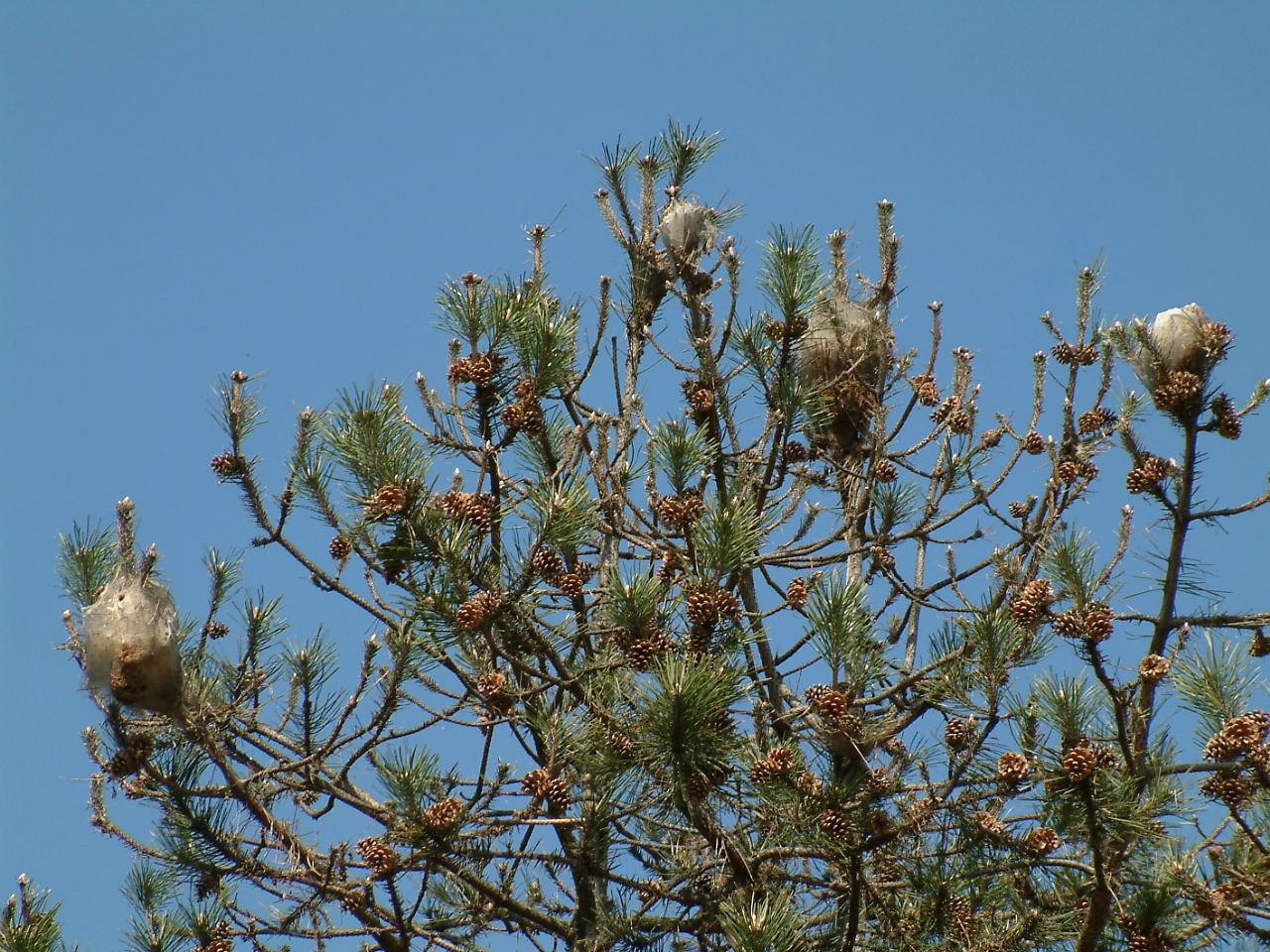 Several Thaumetopoea pityocampa nests, on a pine ; Chambery, France.